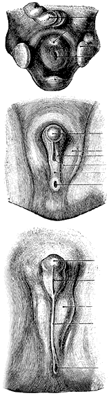 Stages in the development of the external sexual organs in the male